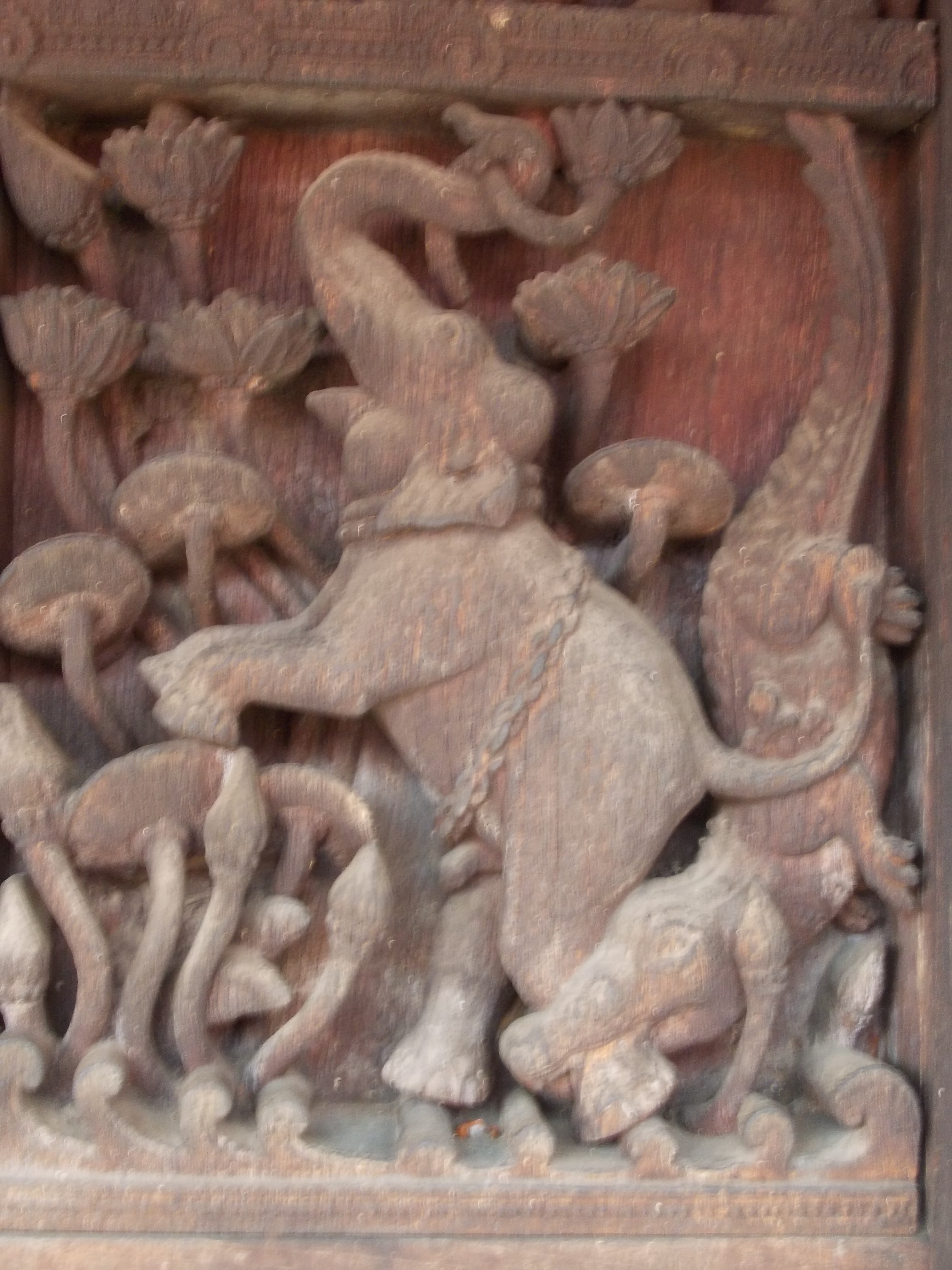 ഗജേന്ദ്രമോക്ഷം- കവിയൂർ മഹാദേവക്ഷേത്രത്തിലെ ദാരുശില്പം